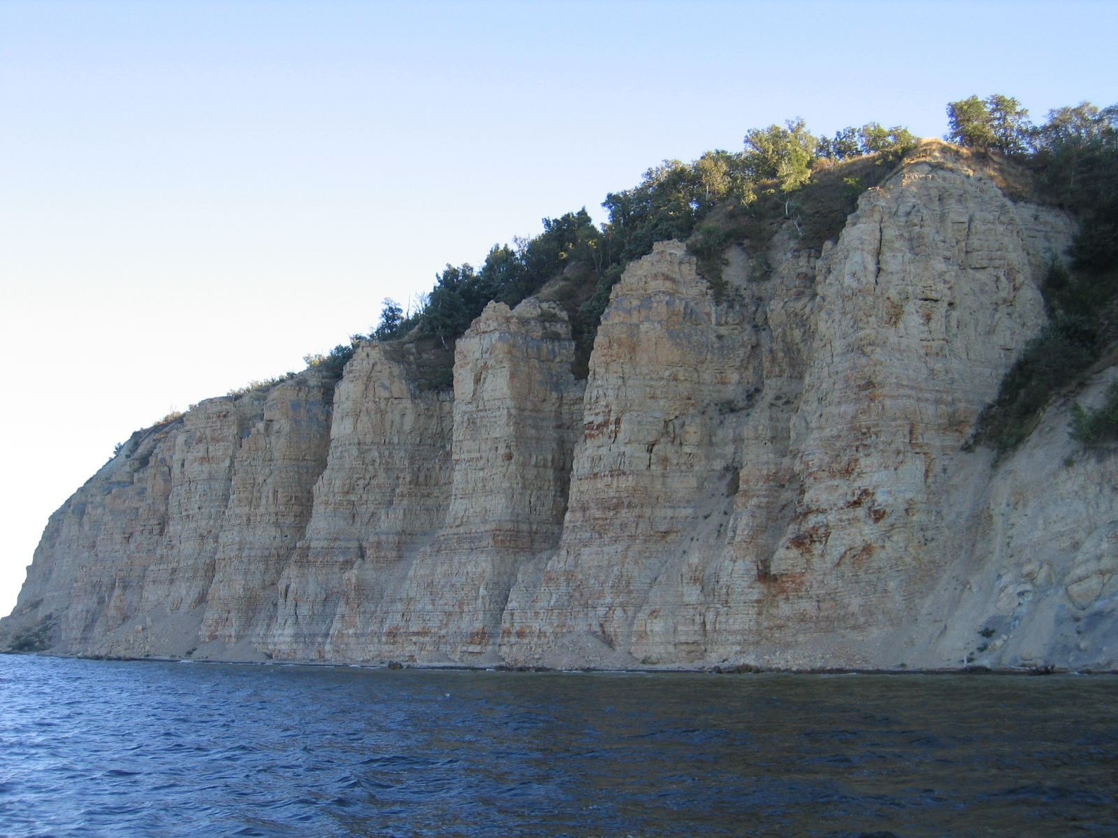 Stolbichi - cliff on the right bank of the Volga. Nature Park Shcherbakovskaya, Kamyshin district of the Volgograd Region.